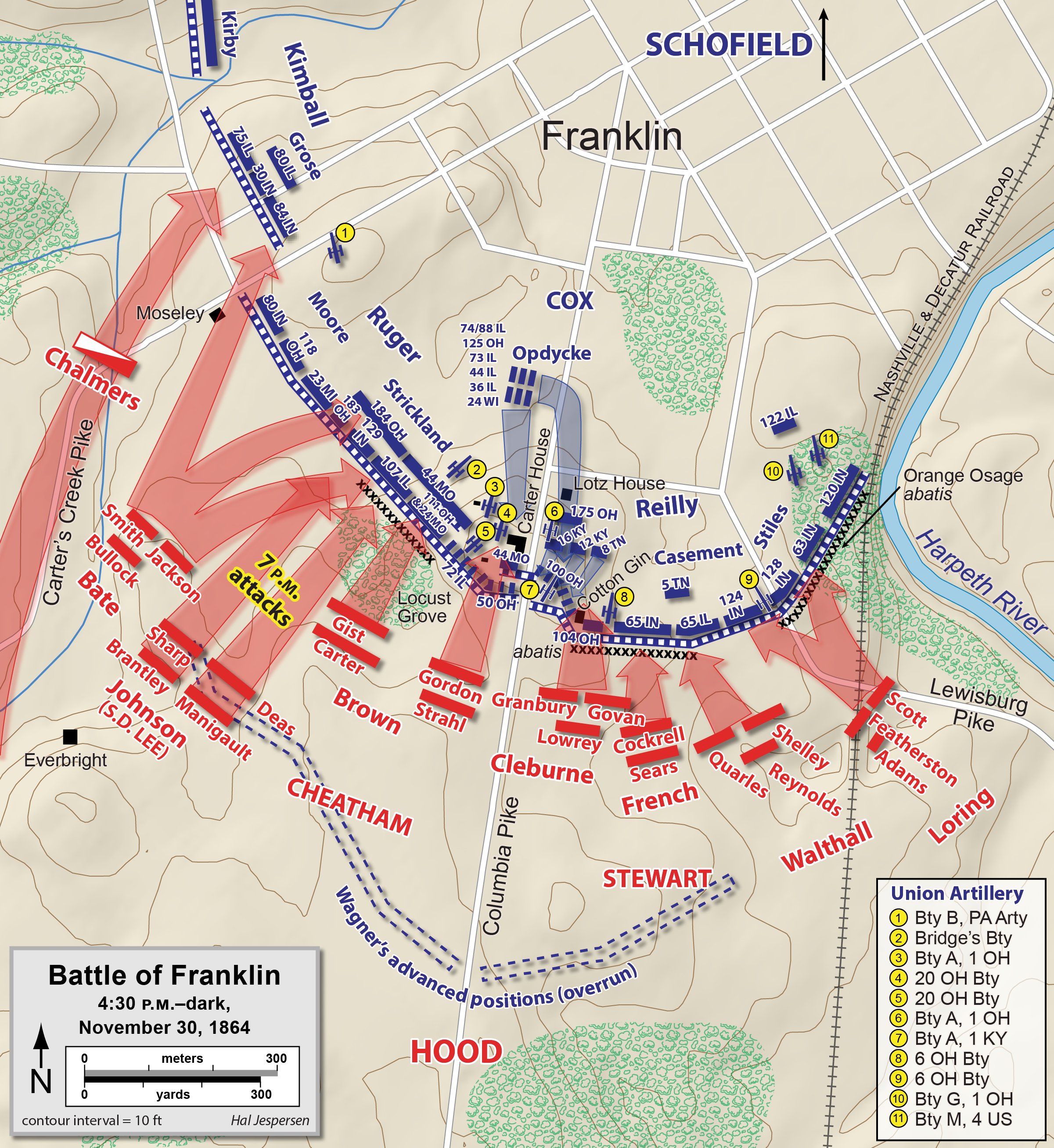 Map of the Battle of Franklin of the American Civil War, showing the Union defensive lines at 4:30 PM. Drawn in Adobe Illustrator CS6 by Hal Jespersen. Graphic source file is available at